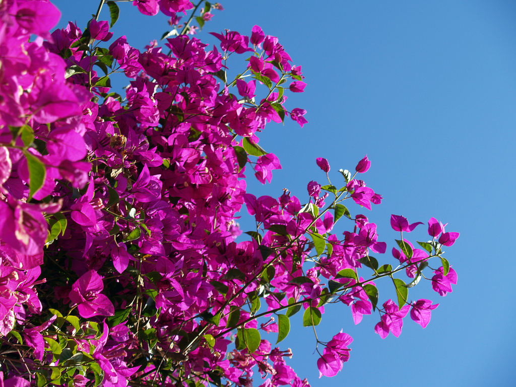 The flowers from the Southbank Arbour geotagged